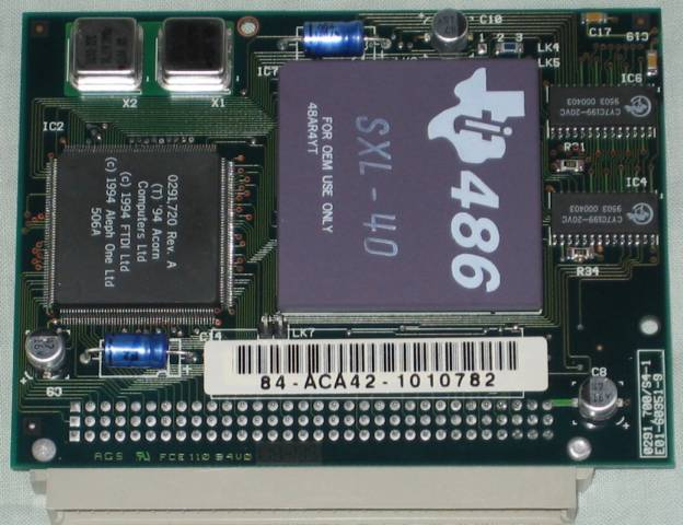 Acorn ACA42 (front).The PCcard fits in the second CPU card slot on the RiscPC and enables it to run as a PC. This is the original Acorn 486 PCcard, it has a Texas Instruments 486 SXL-40 CPU. The 486 CPU has 8KB on chip cache and a 32bit bus. On this card it is clocked at 33MHz.. These PCcards are also know as Gemini I cards because of they used a common card design.